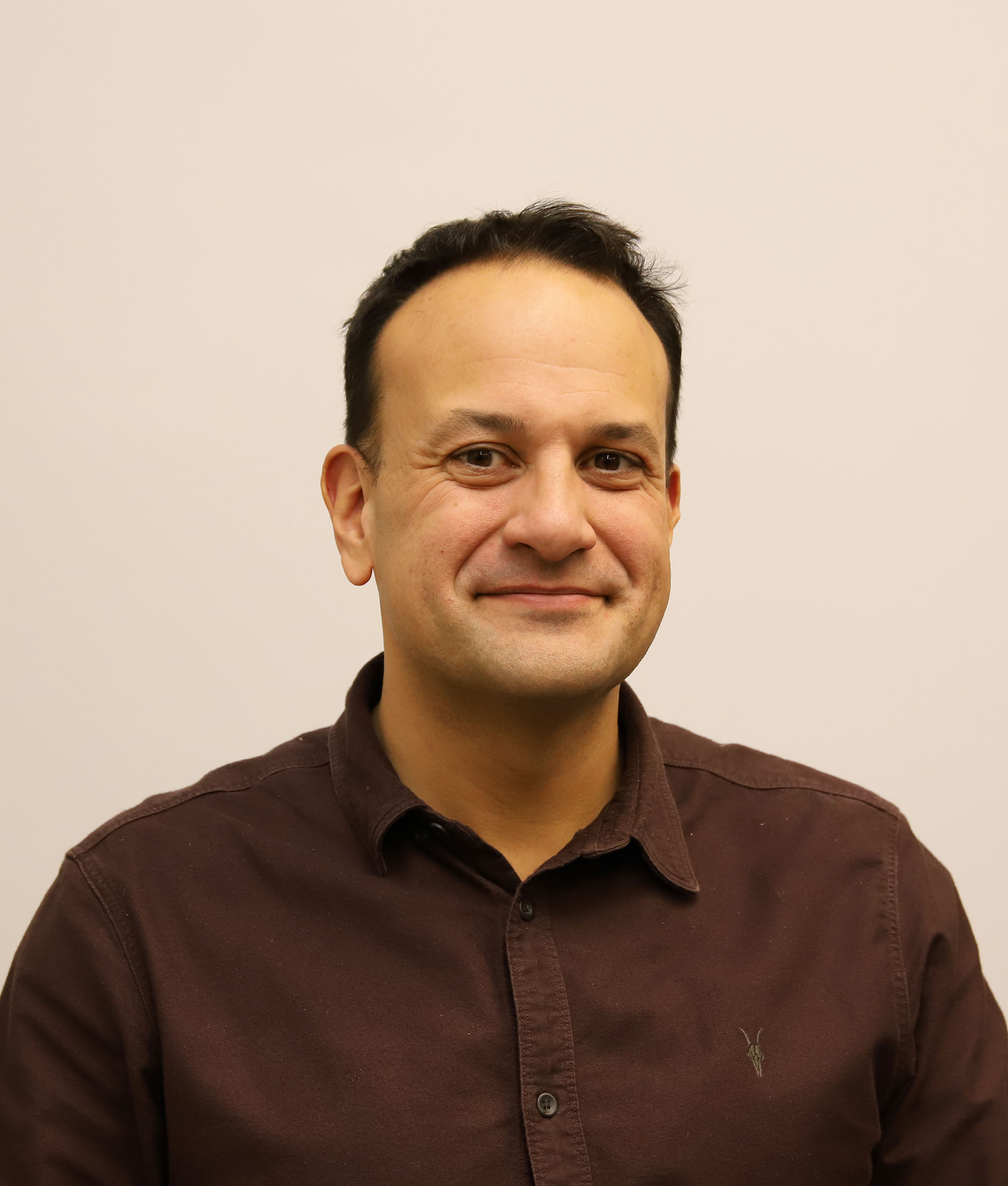 Official portrait of Leo Varadkar TD used on the Houses of the Oireachtas website.